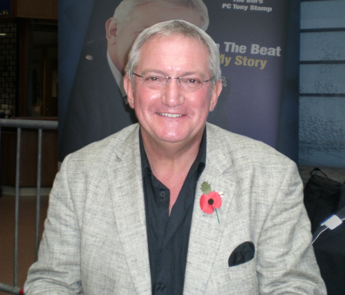 Graham Cole at 3rd Norwich Sci-Fi Film, Comic, Toy & Collectors Fair at the University of East Anglia on 1st November 2009.